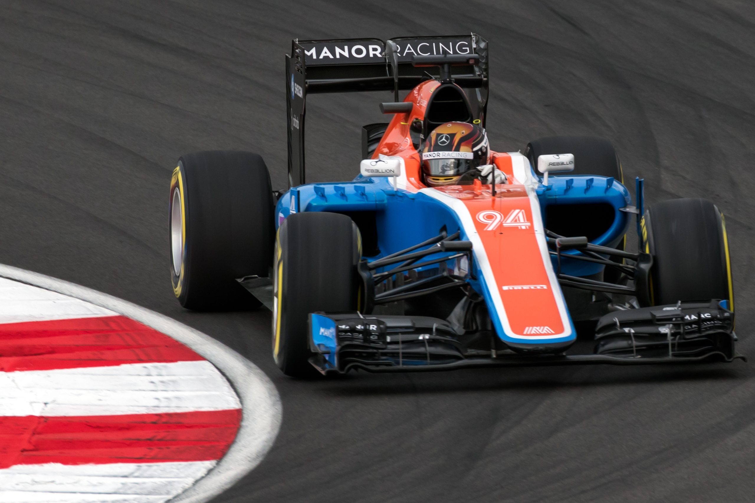 Formula One 2016 Rd.16 Malaysian GP: Pascal Wehrlein (MRT)